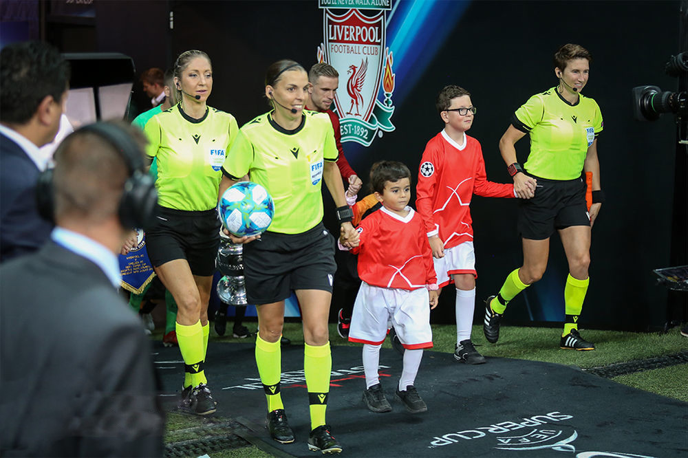 Liverpool vs. Chelsea, 2019 UEFA Super Cup